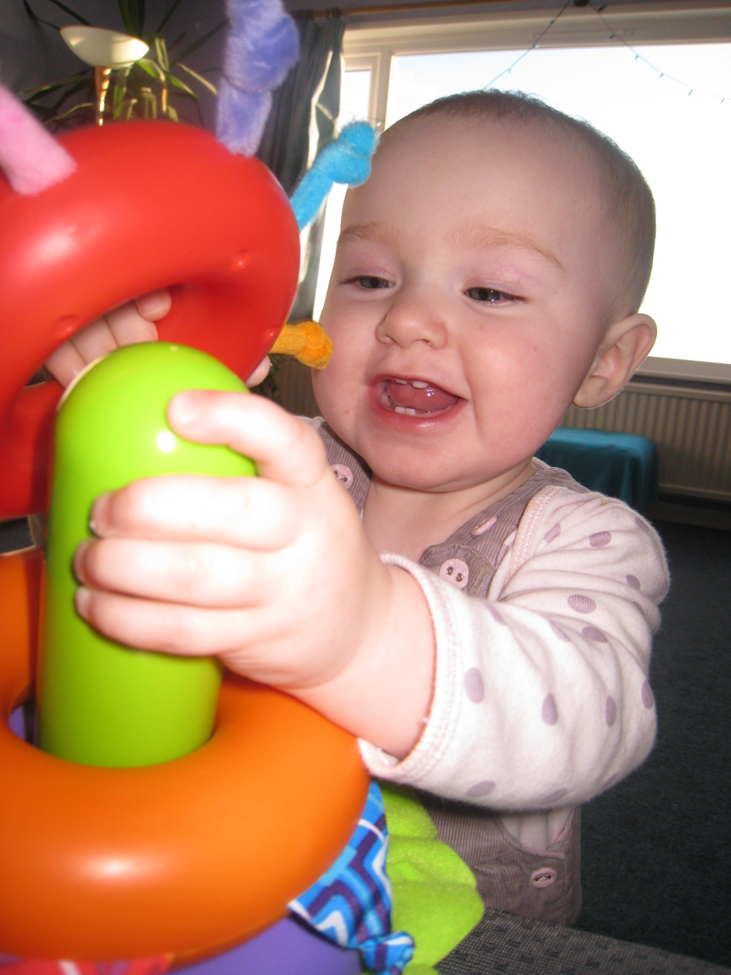 Smiling baby girl stacking ring toy